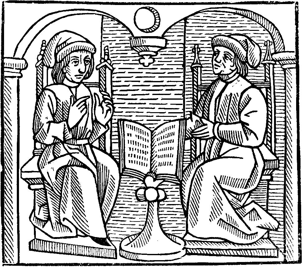 Picture from CAXTON'S GAME AND PLAYE OF THE CHESSE. 1474.